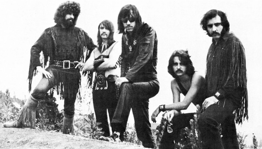 Trade ad for Steppenwolf's single "Snowblind Friend".To better adapt it to his respective Wikipedia article, the ad was cropped and cleaned in a graphics editing program. The original can be viewed at the source below.